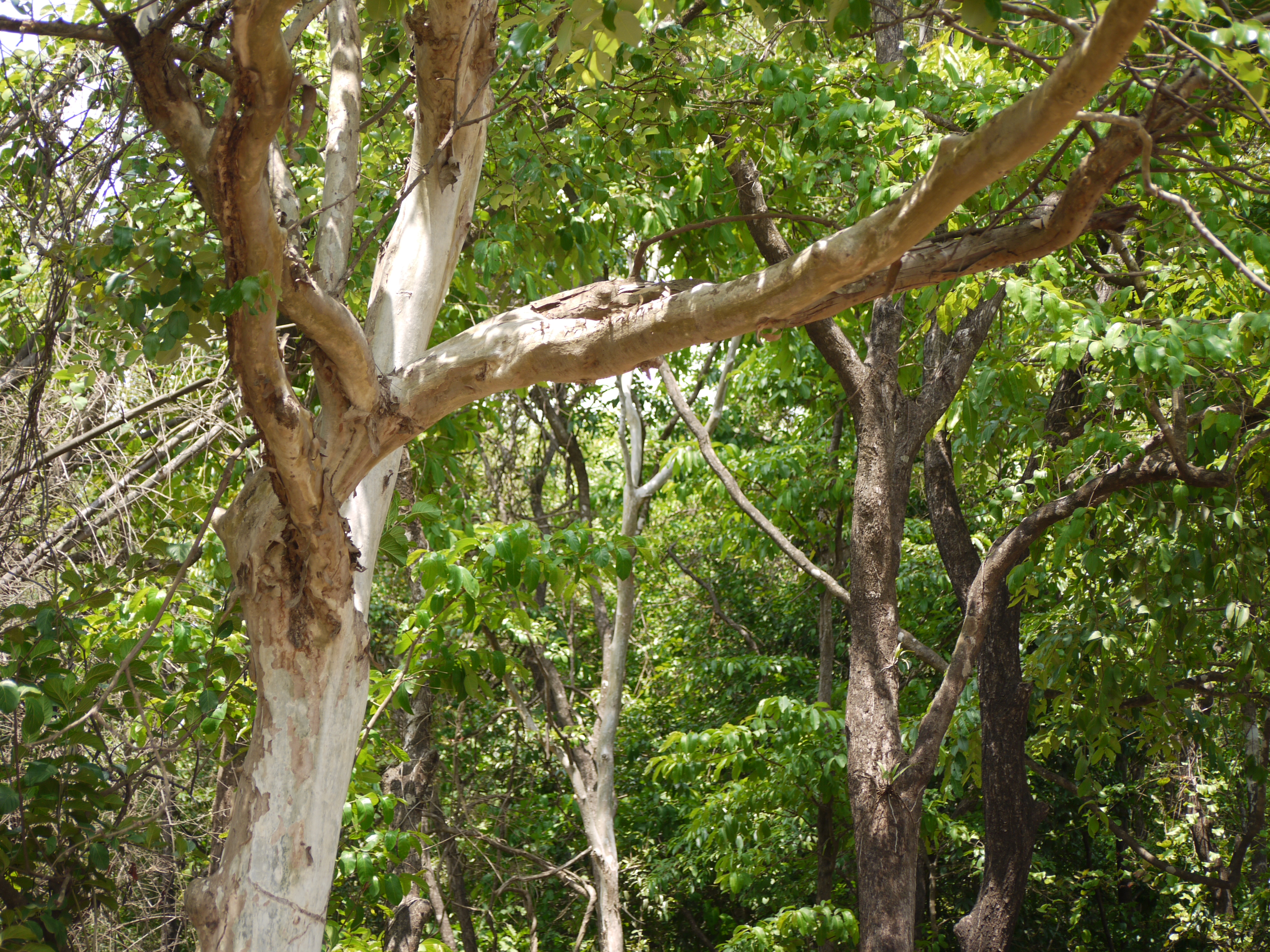 Lythraceae (Lythrum, or loosestrife family) » Lagerstroemia microcarpa la-ger-STROO-mee-uh -- named for Magnus von Lagerström, Swedish naturalist my-kro-KAR-puh -- meaning, tiny fruit commonly known as: ben teak, nana • Kannada: ನಮ್ದಿಮರ nandimara • Konkani: नरम naram • Malayalam: വെള്ളിലവ് vellilav, വെന്തേക്ക് ventheekk • Marathi: बोंडारा bondara, कुंबया kumbaya, नाना or नाणा nana • Tamil: கச்சைக்கட்டை kaccai-k-kattai, வெள்விளா vel-vila, வெண்டேக்கு ventekku • Telugu: చిన్నంగి chinnangi Endemic to: Western Ghats (India) References: Flowers of India • The Gazetteers Department • DDSA